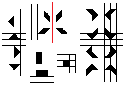 Different alias of a same polyabolo according to its symmetrical caracteristics